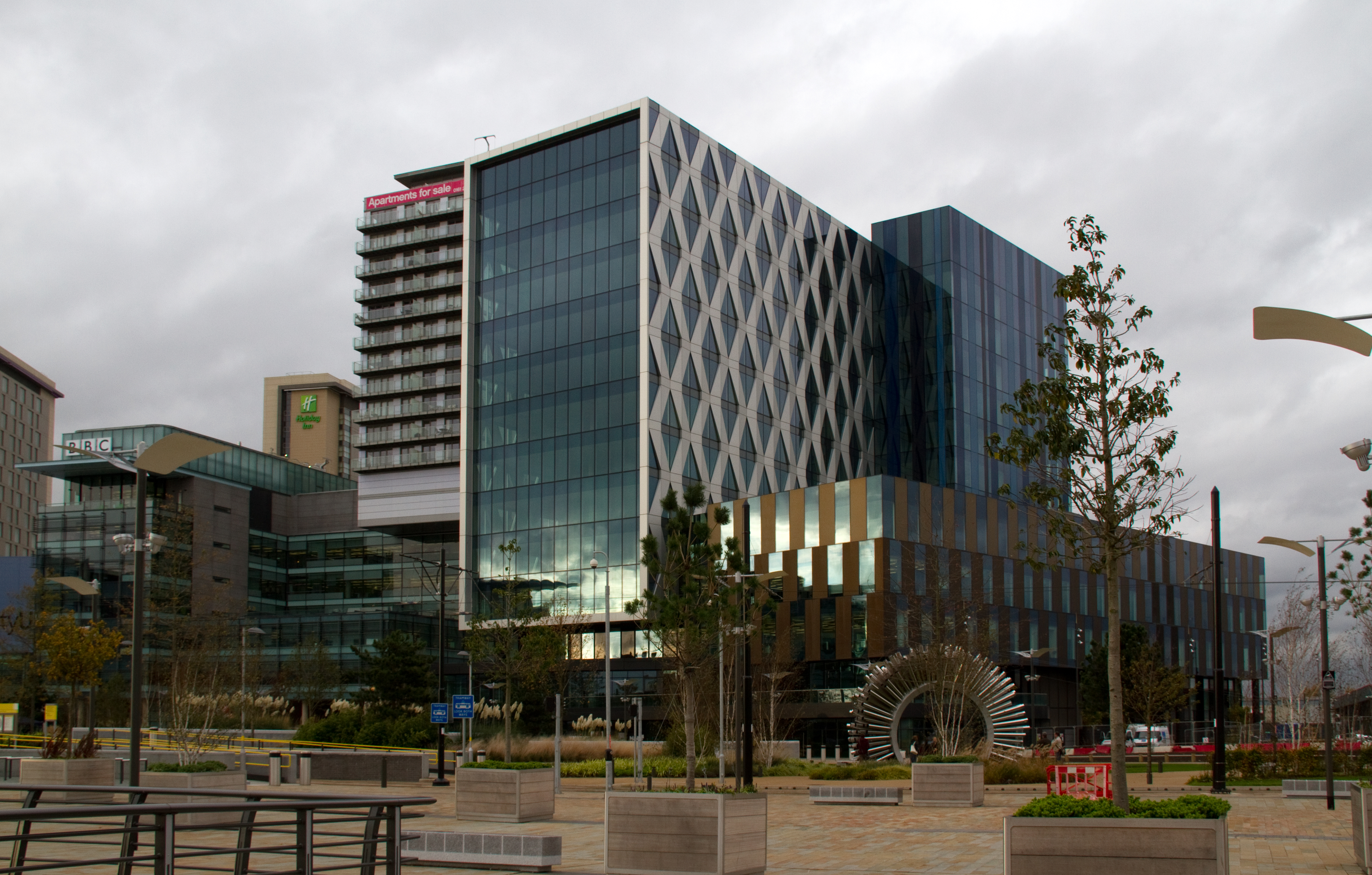 Salford Quays The BBC 2